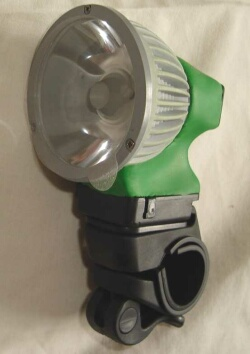 Alien eye home built mountain bike light from a standard 5 W MR16 LED lamp.